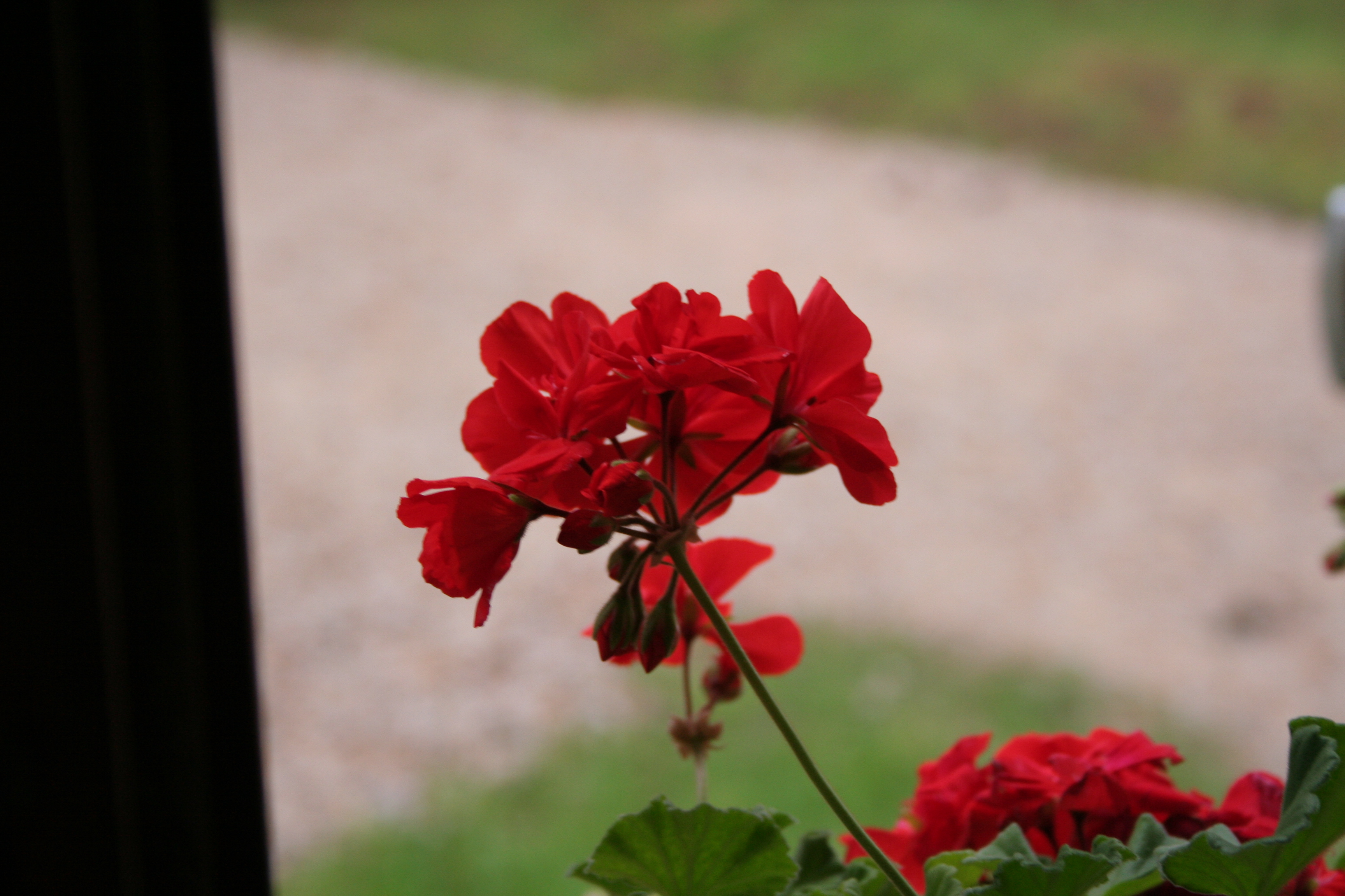 Geranium.